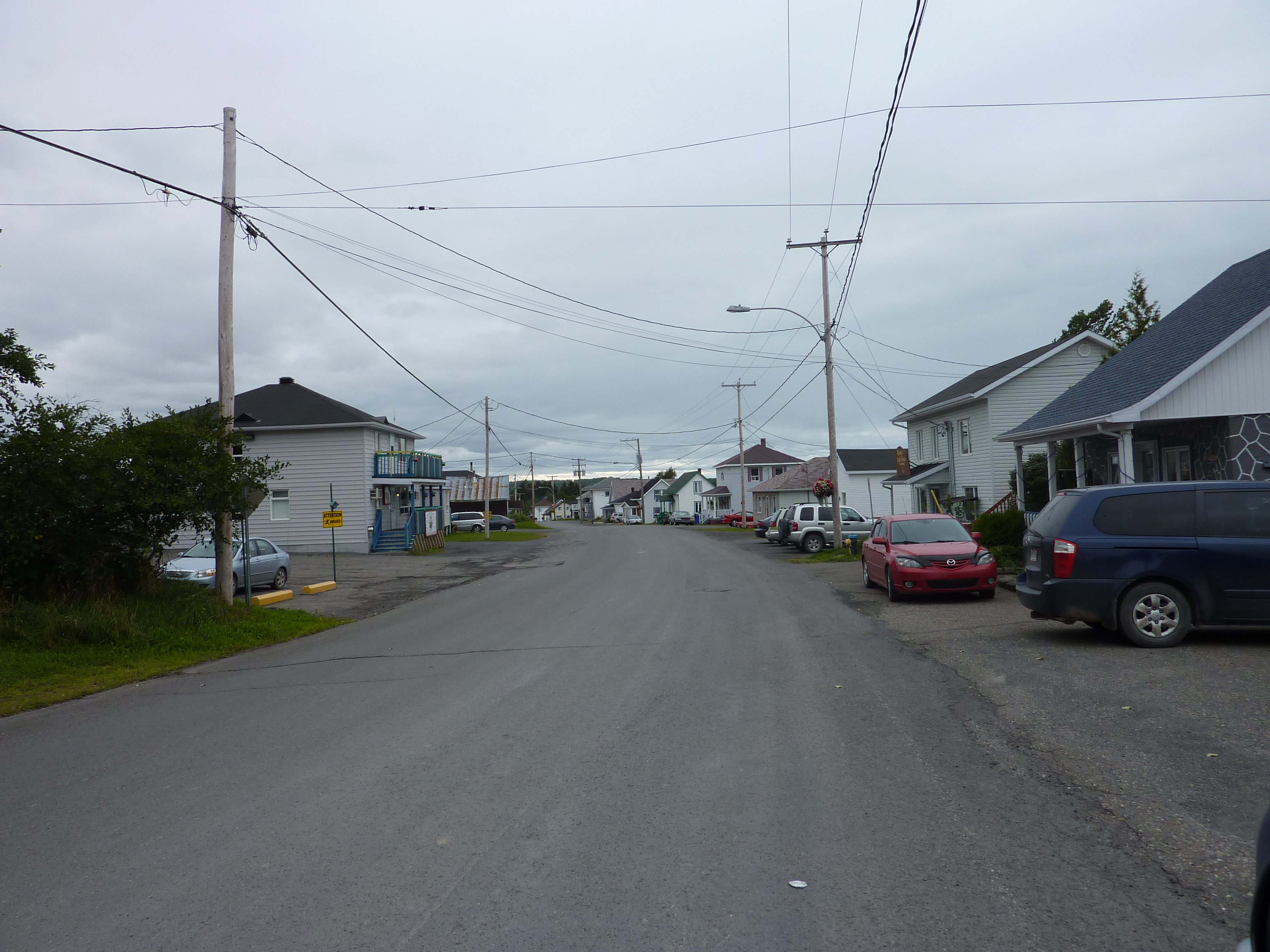 Saint-Moïse, Qc